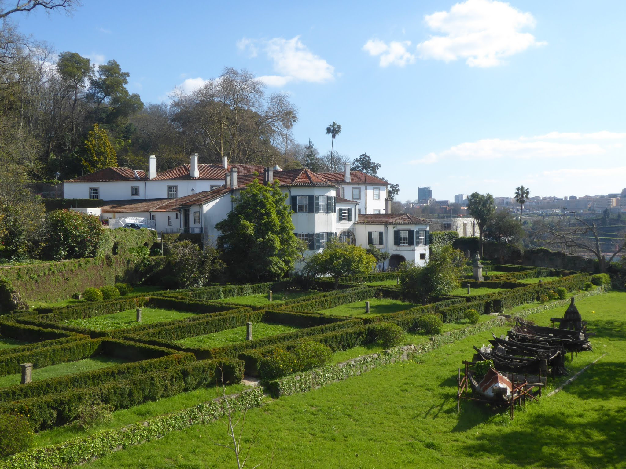 Casa Tait This building is classified as Sem protecção legal.